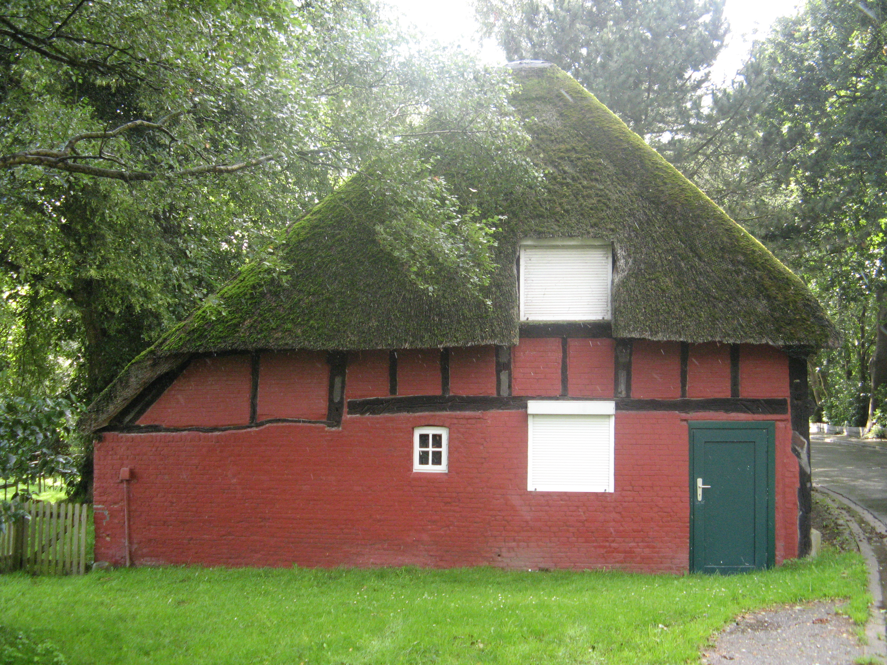 "To Osten 6" one of the oldest houses in Dihmarschen in hemmingstedt